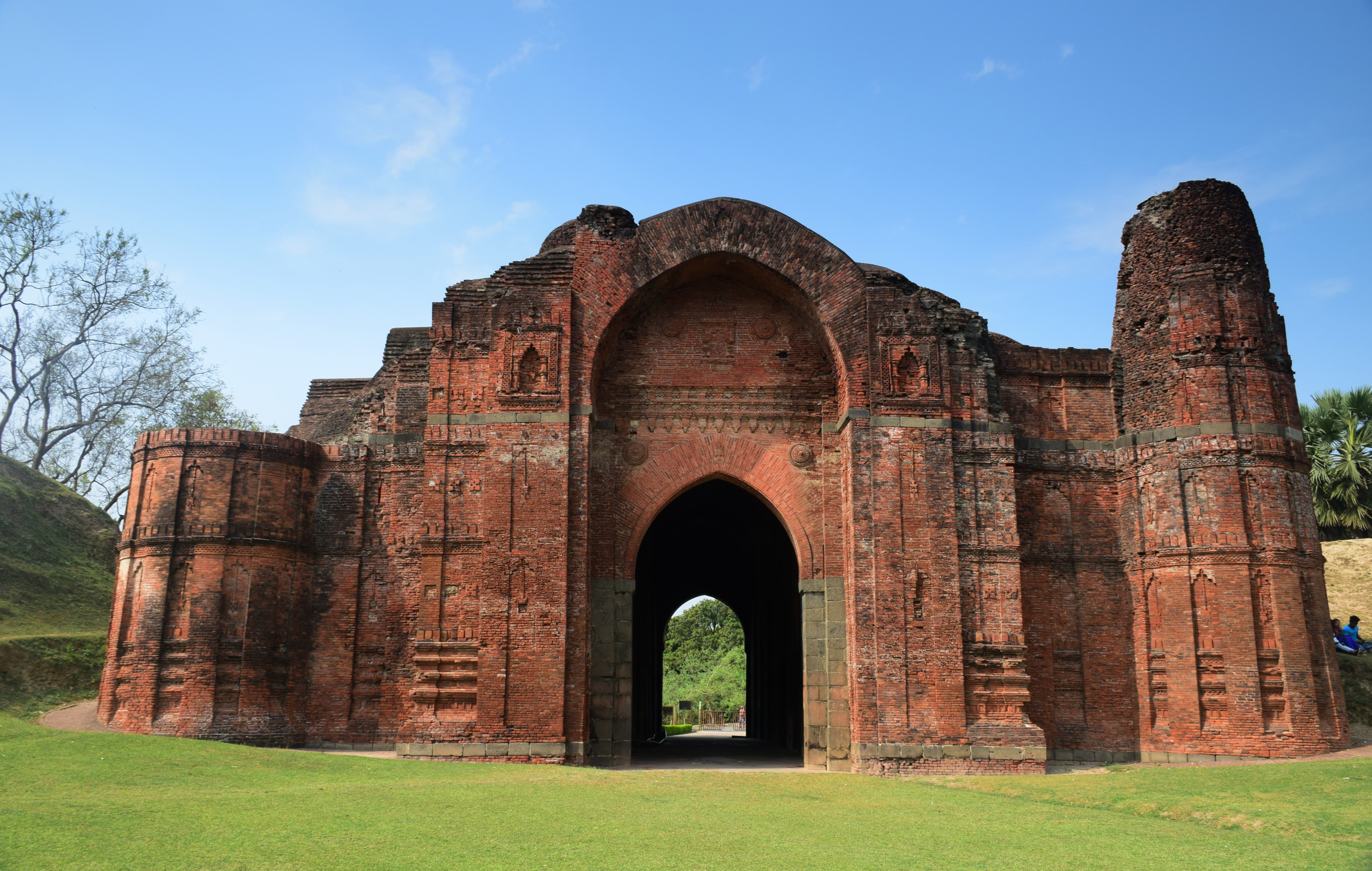 Dakhil Darwaja alias Salami Darwaja at the ancient capital of Bengal at Gaur in Malda district was built by in all probabilities by Barbak Shah in 1425. This was the northern entrance to the fort of Gaur.